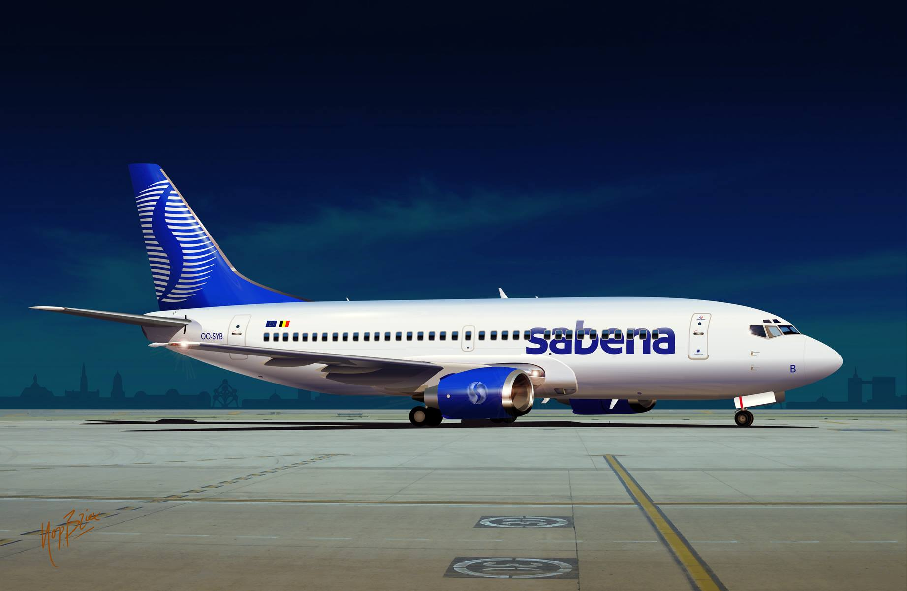 Sabena Boeing 737-300 OO-SYB